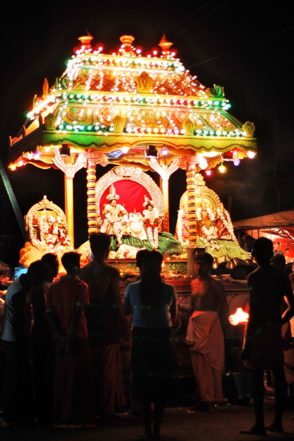 The cart stopped along the way to receive trays of fruit which are given as offerings by the people. Munneswaram Hindu temple